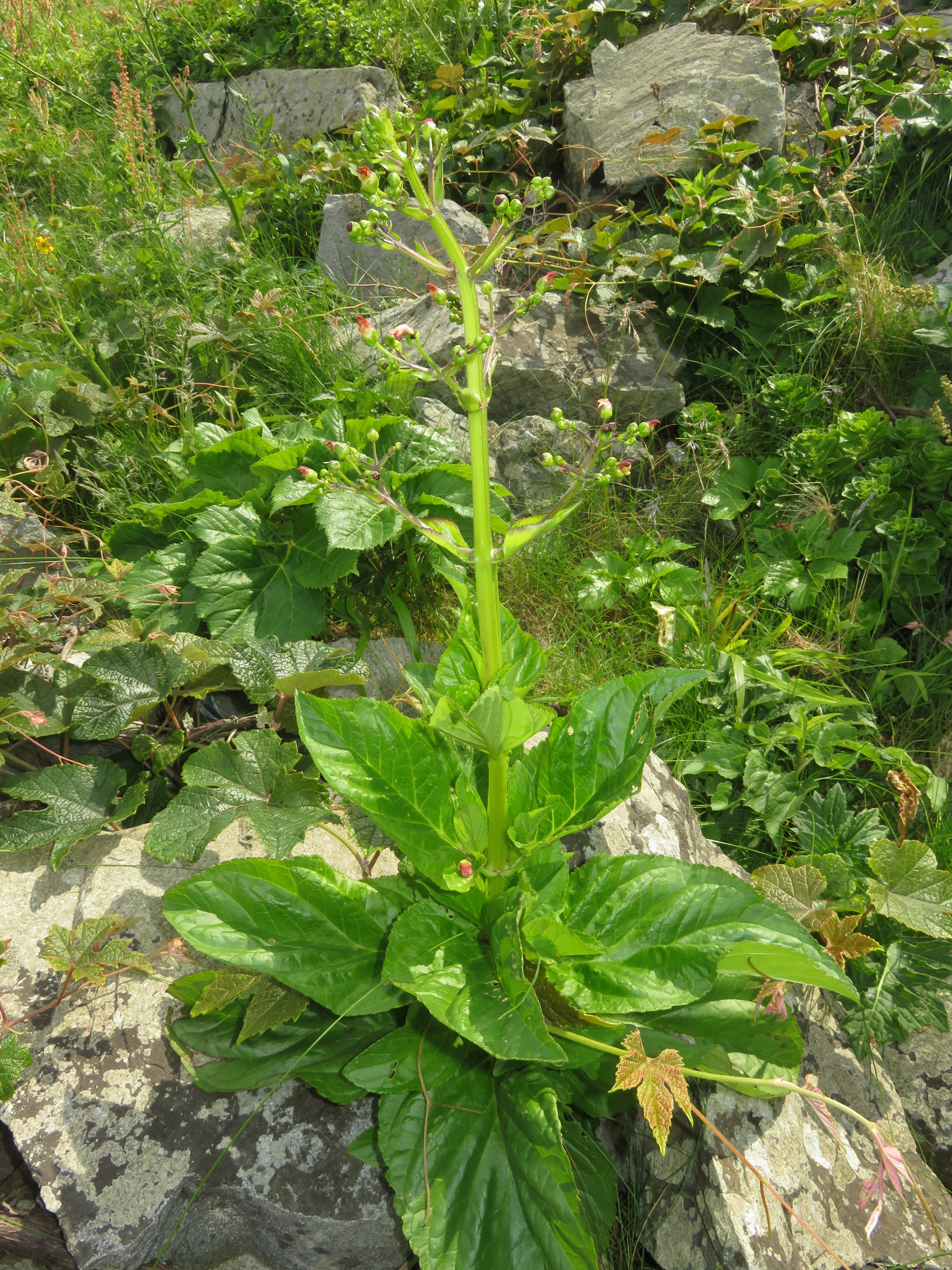 Scrophularia alata, Cape Shiriya , Aomori pref., Japan